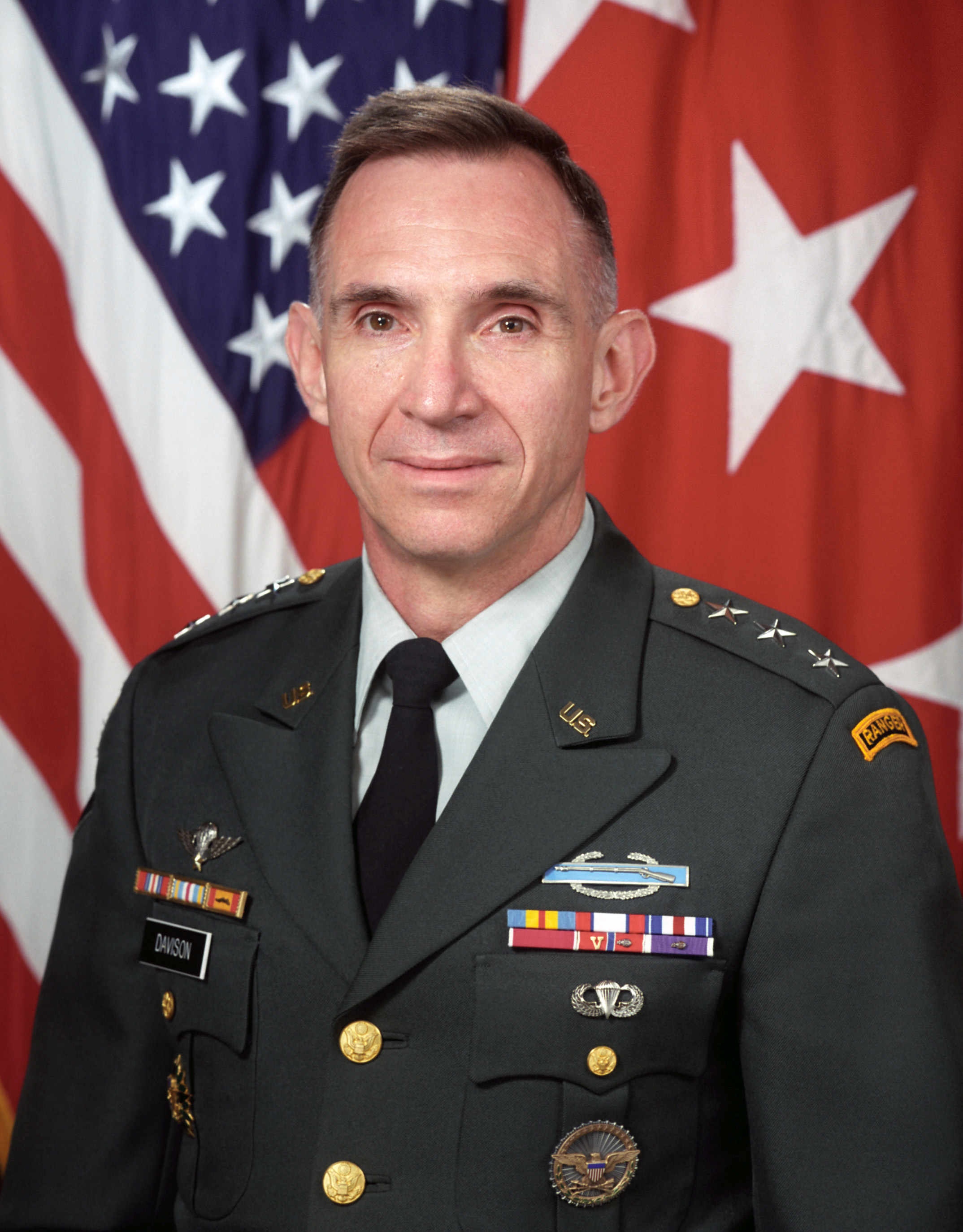 Portrait of U.S. Army Lt. Gen. Michael S. Davison, Jr., (Uncovered), (U.S. Army photo by Mr. Scott Davis) (Released) (PC-192890)